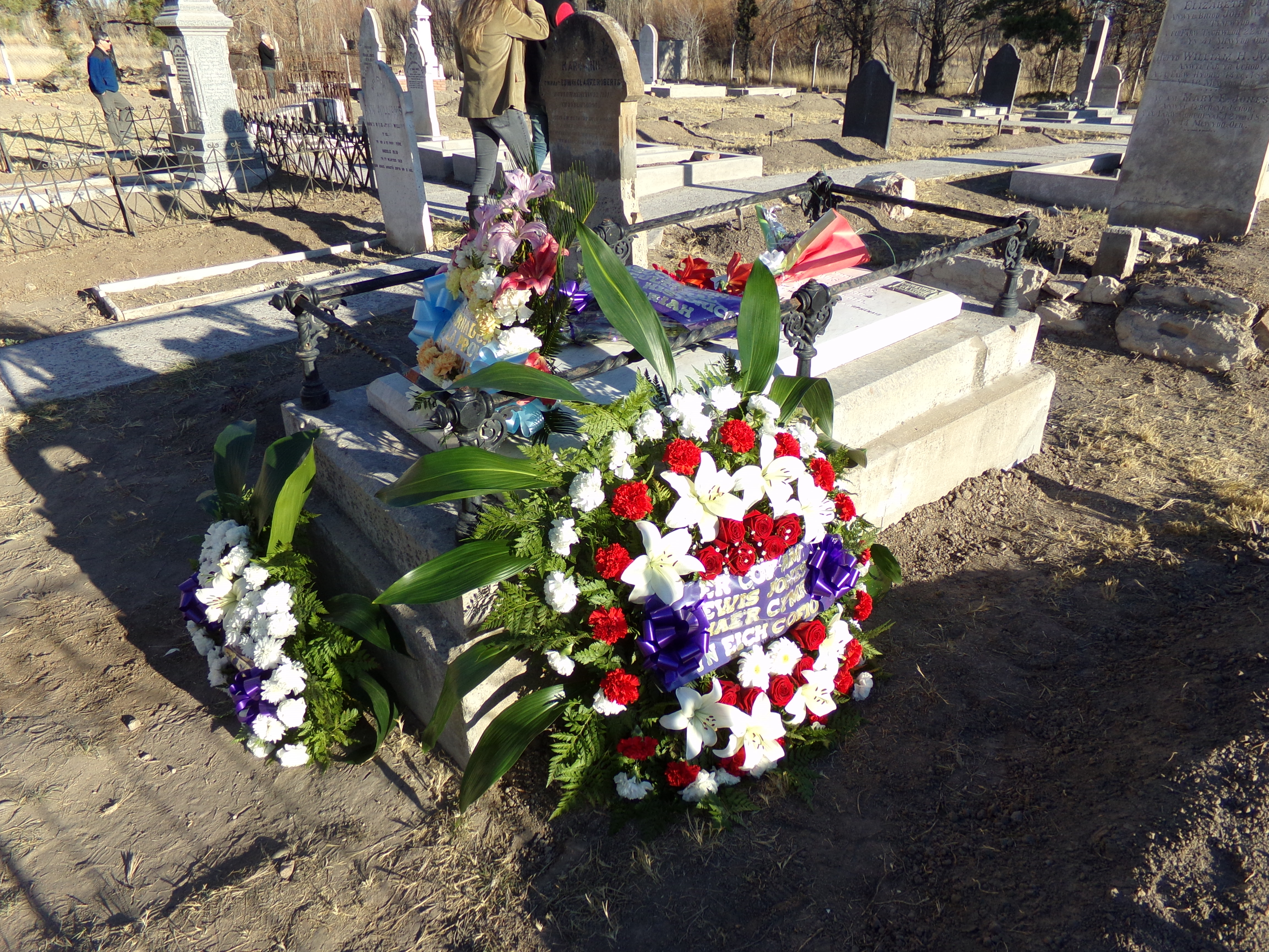 Act of July 28 at Moriah Chapel in Trelew. Wreaths were placed on the grave of Lewis Jones.